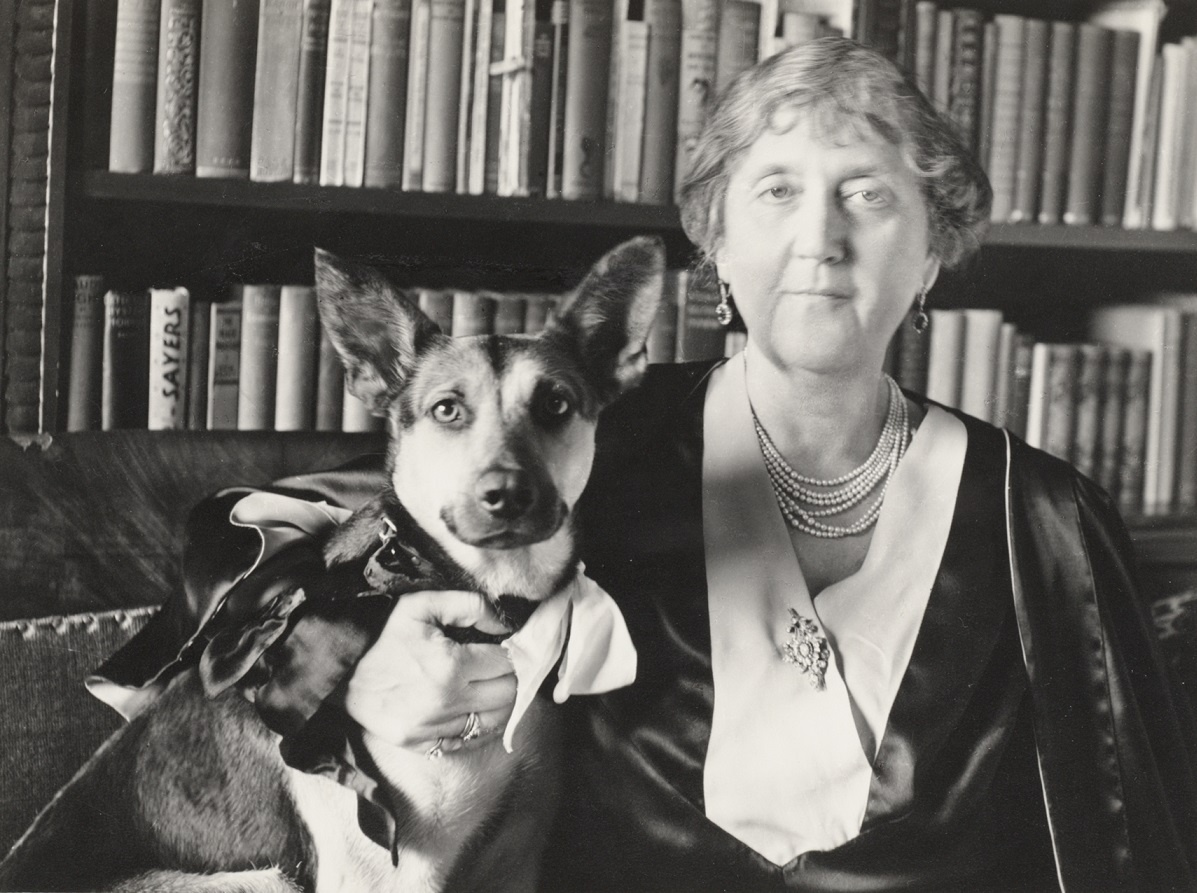 Dutch author Amoene van Haersolte